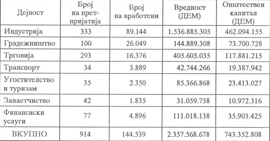 Results in privatization of Macedonia up to 1996